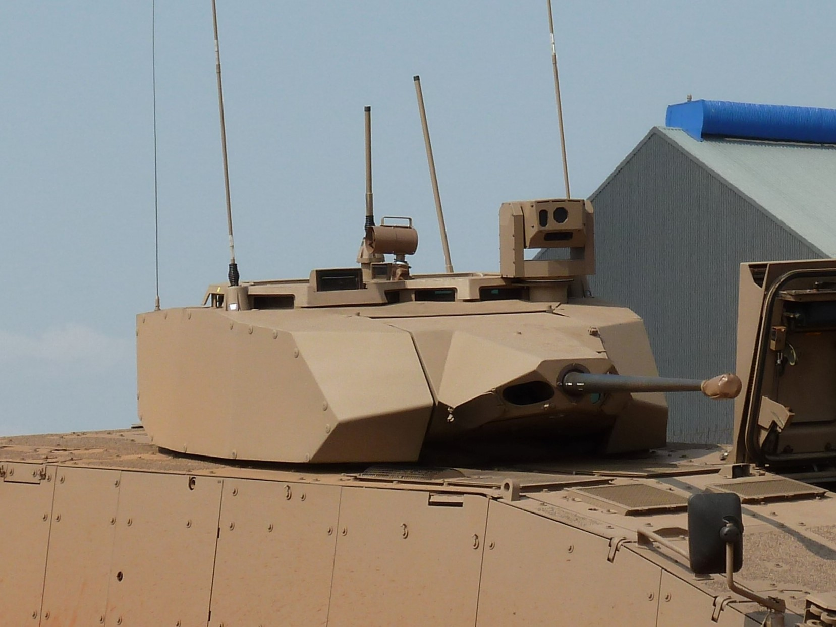 Denel LCT30 turret